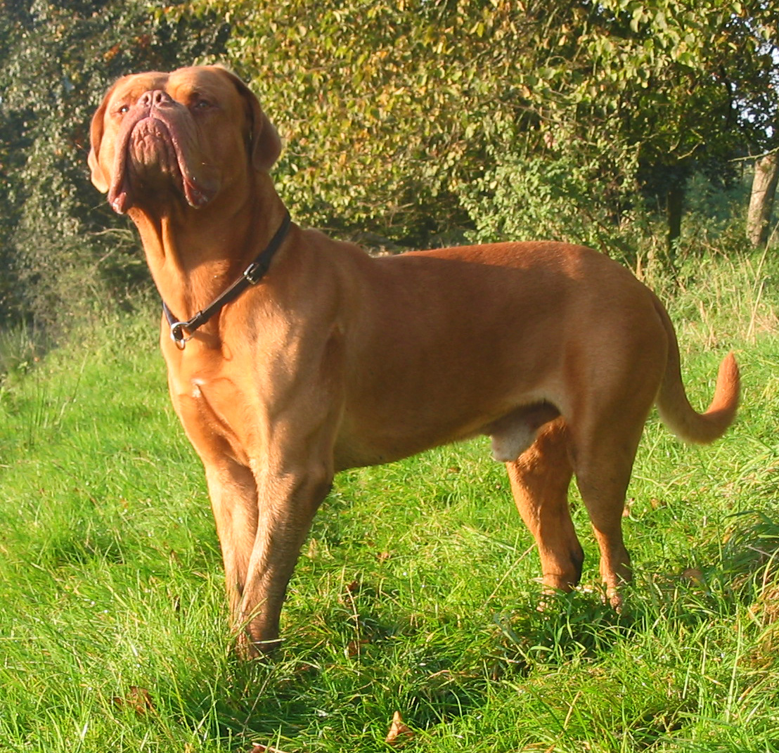 Dogue de Bordeaux (French Mastiff)